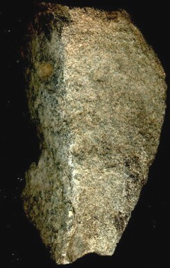 Prehistoric Venus of Schippiate, at Carticasi, Corsica